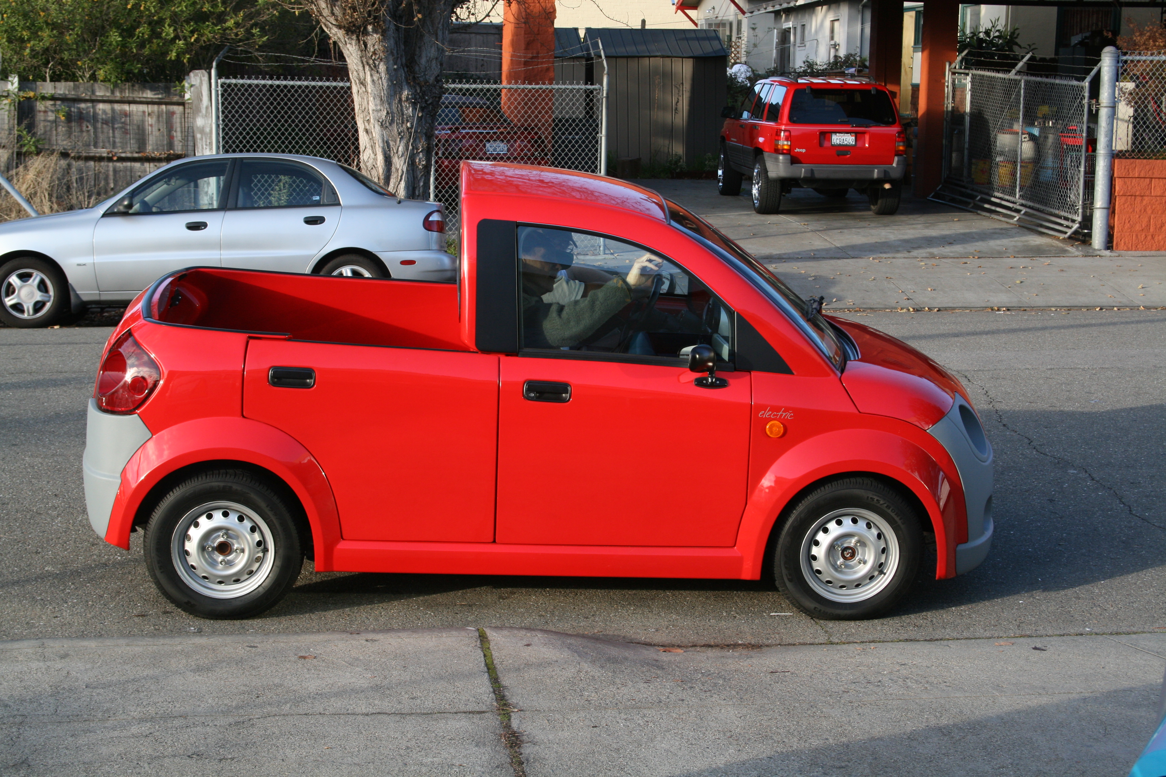 Dynasty EV Neighborhood Electric Vehicle